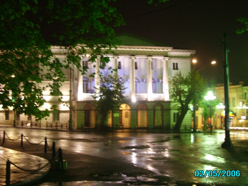 Georgian National Museum of Fine Arts